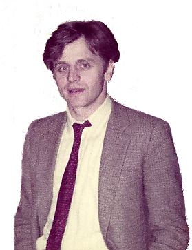 Mikhail Baryshnikov in New York, 1984.